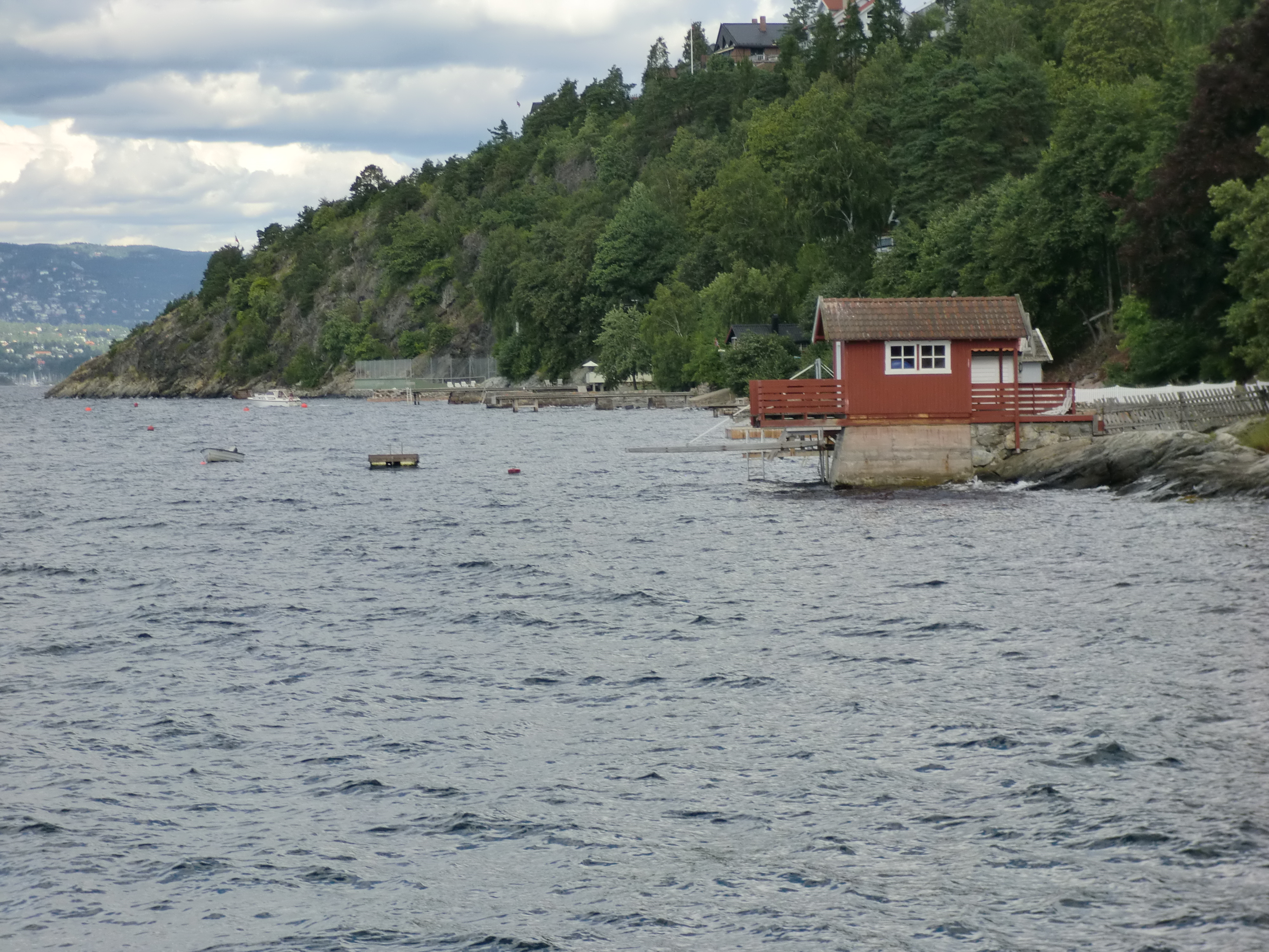 View of the typical bathing houses at the coastal line of the commune Nesodden in Norway, in the small village of Flaskebekk